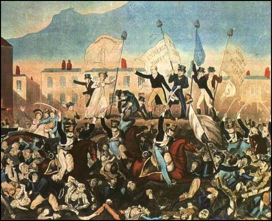 To Henry Hunt, Esq., as chairman of the emeeting assembled in St. Peter's Field, Manchester, sixteenth day of August, 1819, and to the female Reformers of Manchester and the adjacent towns who were exposed to and suffered from the wanton and fiendish attack made on them by that brutal armed force, the Manchester and Cheshire Yeomanry Cavalry, this plate is dedicated by their fellow labourer, Richard Carlile:[1] a coloured engraving that depicts the Peterloo Massacre (military suppression of a demonstration in Manchester, England by cavalry charge on August 16, 1819 with loss of life) in Manchester, England. All the poles from which banners are flying have Phrygian caps or liberty caps on top. Not all the details strictly accord with contemporary descriptions; the banner the woman is holding should read: Female Reformers of Roynton -- "Let us die like men and not be sold like slaves".